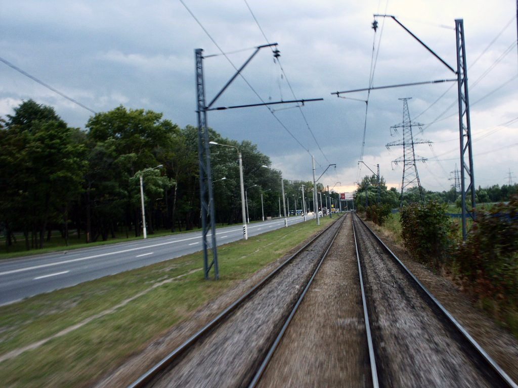 The trackage of the southernmost line in the City of St Petersburg